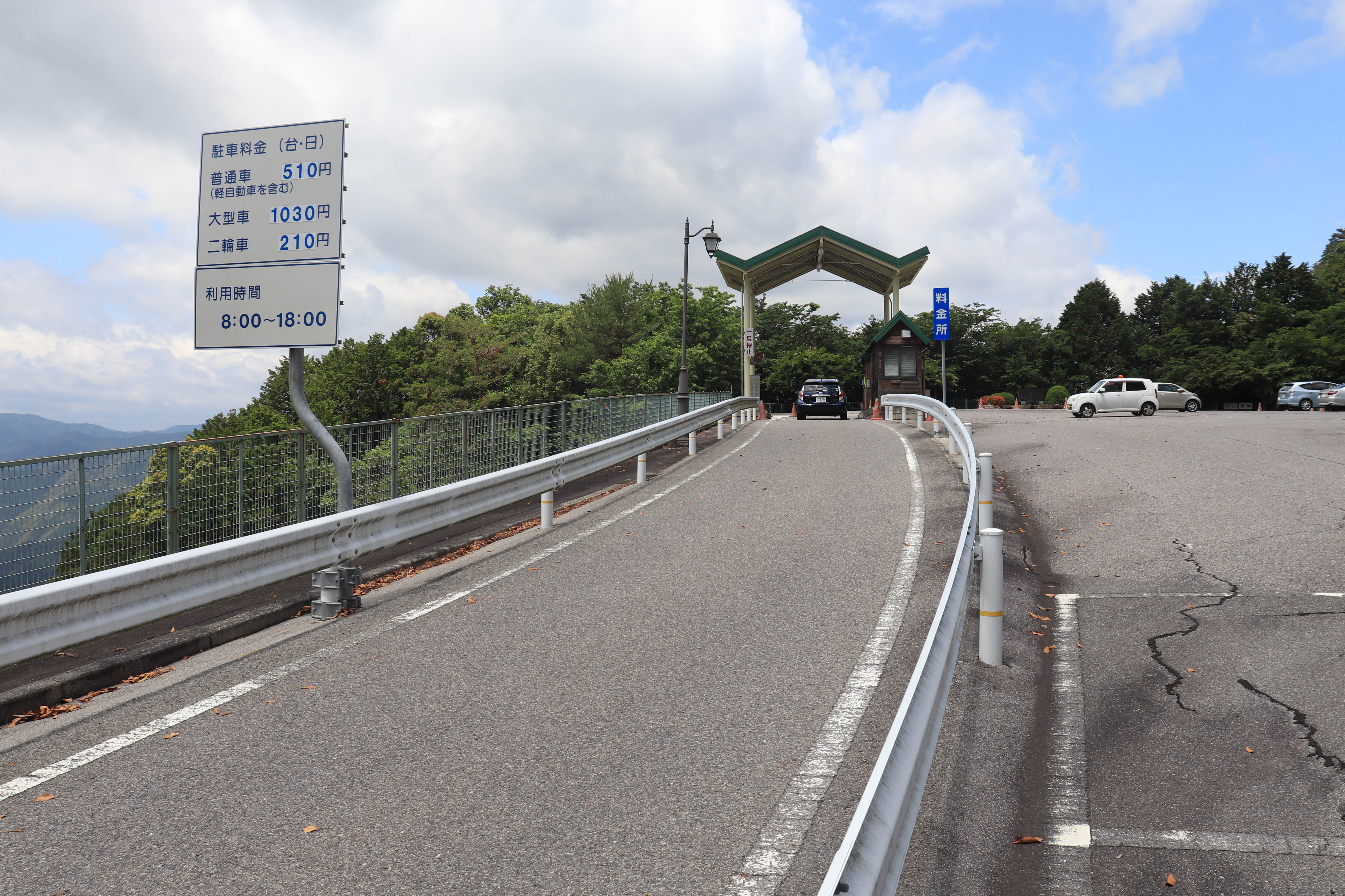 Parking of Horaiji Parkway in Mount Horaiji, Shinshiro, Aichi Prefecture, Japan.